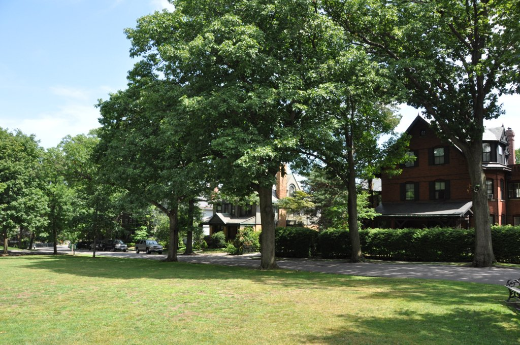 A photograph of the Philbrick Common, a public space in the Pill Hill Historic District of Brookline, Massachusetts.